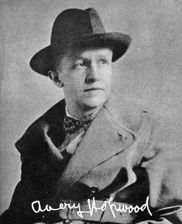 Photograph of American writer Avery Hopwood